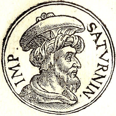 Saturninus is mentioned in the Historia Augusta as a Roman usurper during the reign of emperor Gallienus (253-268).